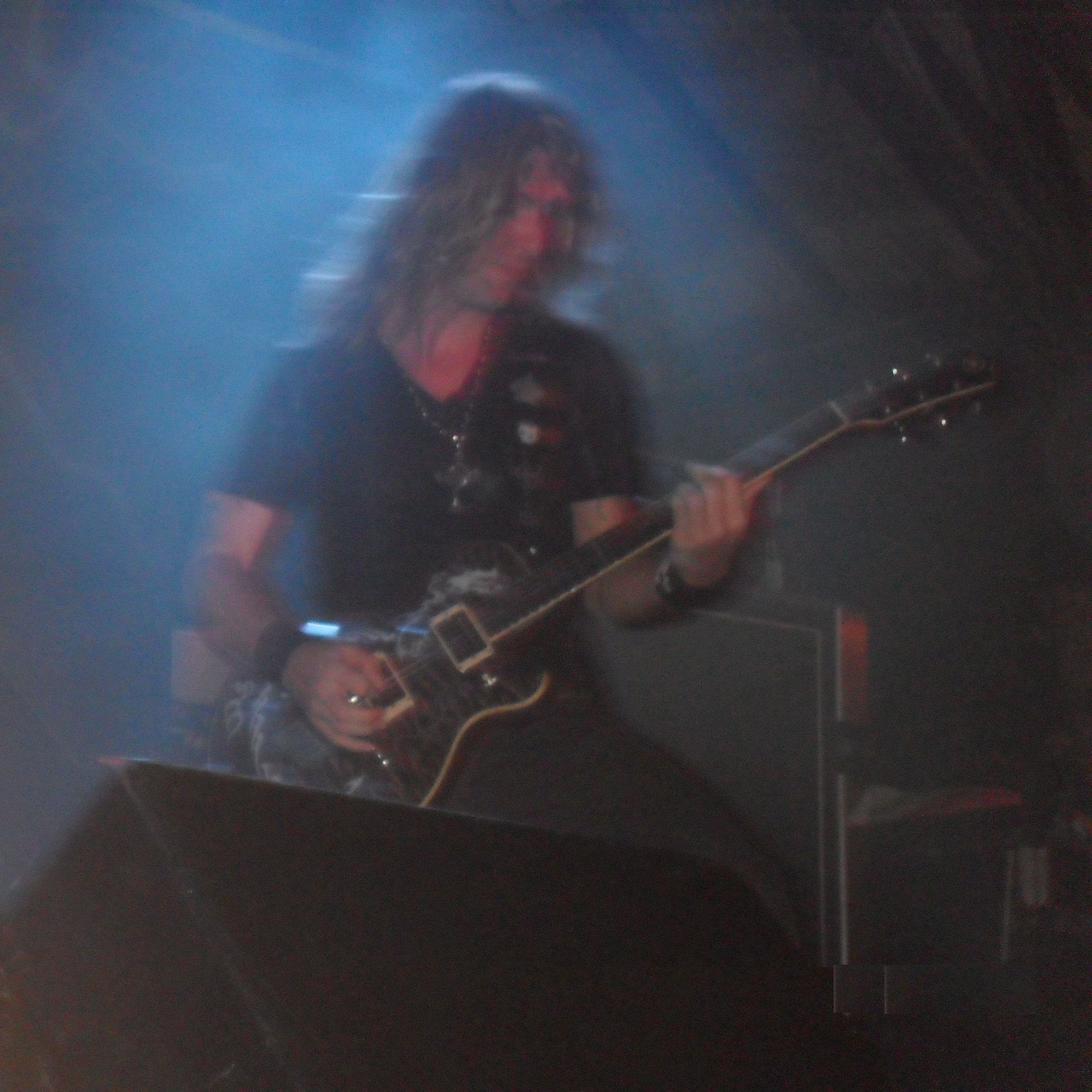 Edu Falaschi live in Guitar